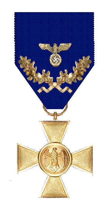 German Cross for 40 years service in Army and Navy